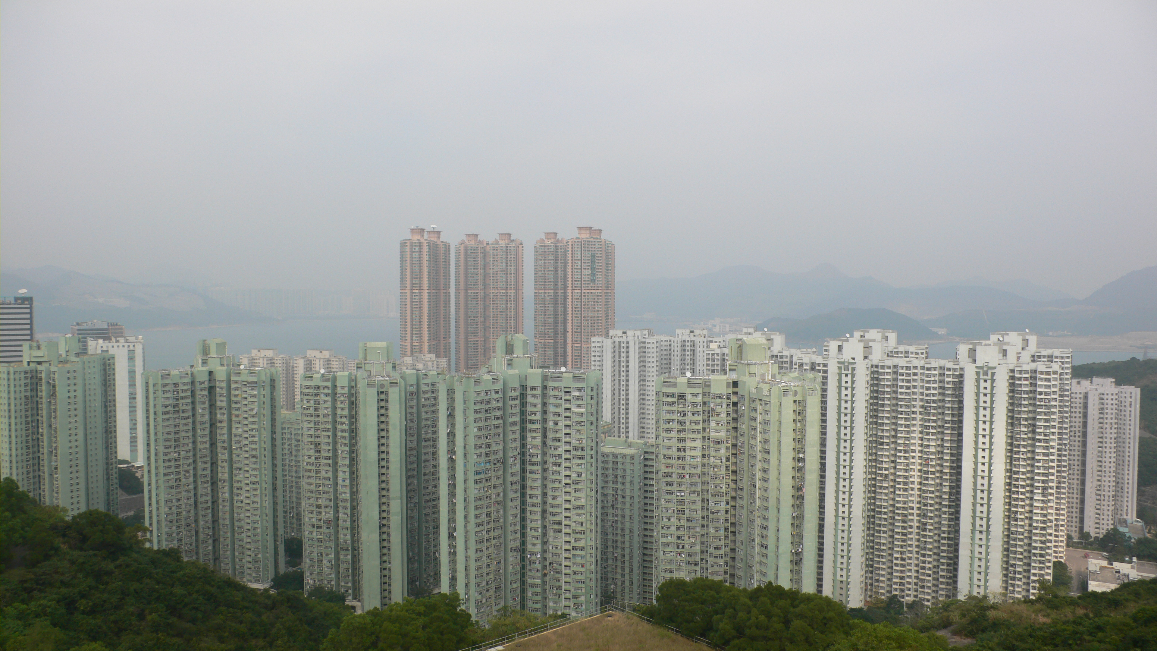 Siu Sai Wan, a residential district in Eastern District of Hong Kong. The photo is taken from Cape Collinson Chinese Permanent Cemetery